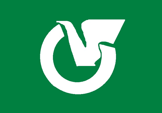 Flag of Shingo Aomori